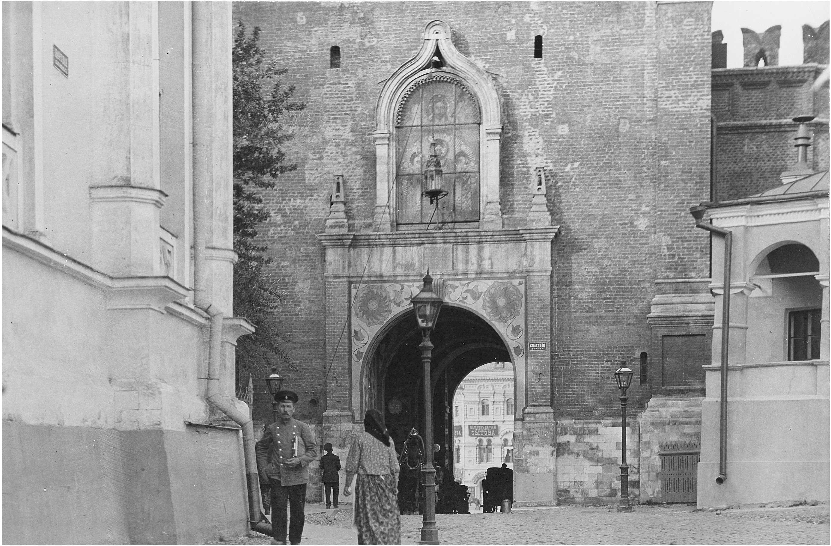 Spasskaya Tower gates from the inside territory of Moscow Kremlin in the beginning of 20 century